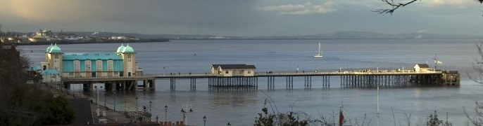 Penarth_Pier, Penarth, Wales